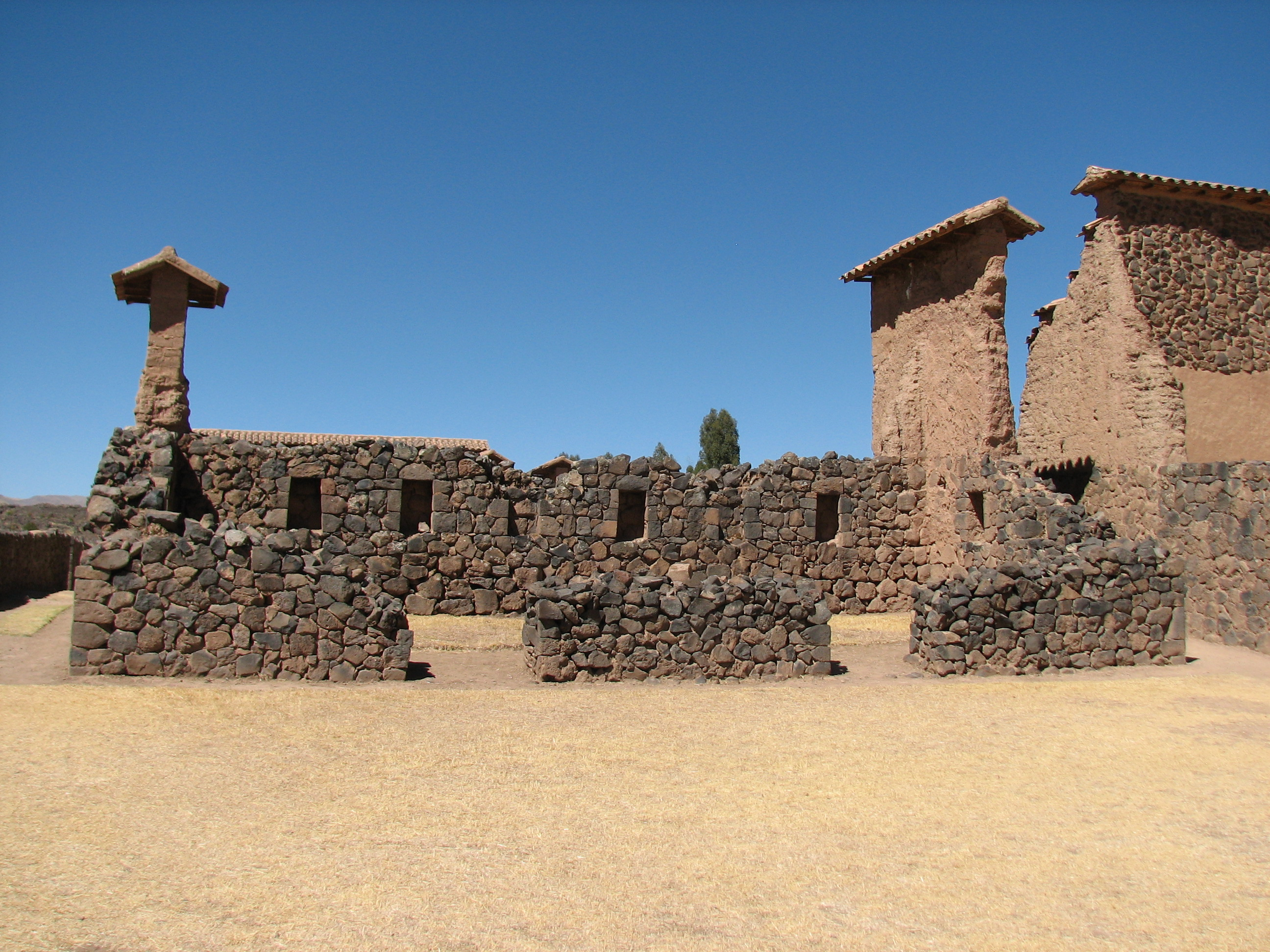 Raqchi archaeological site in Peru